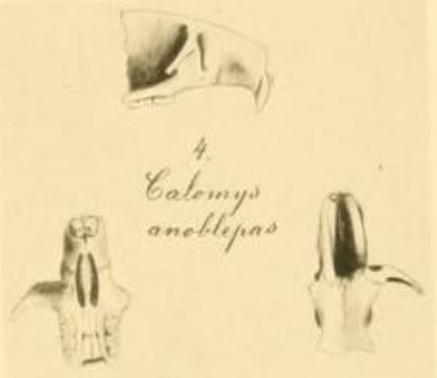 Skull of Calomys anoblepas Winge (current identity unclear).